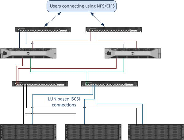 Schematic overview Dell Fluid File System.jpg